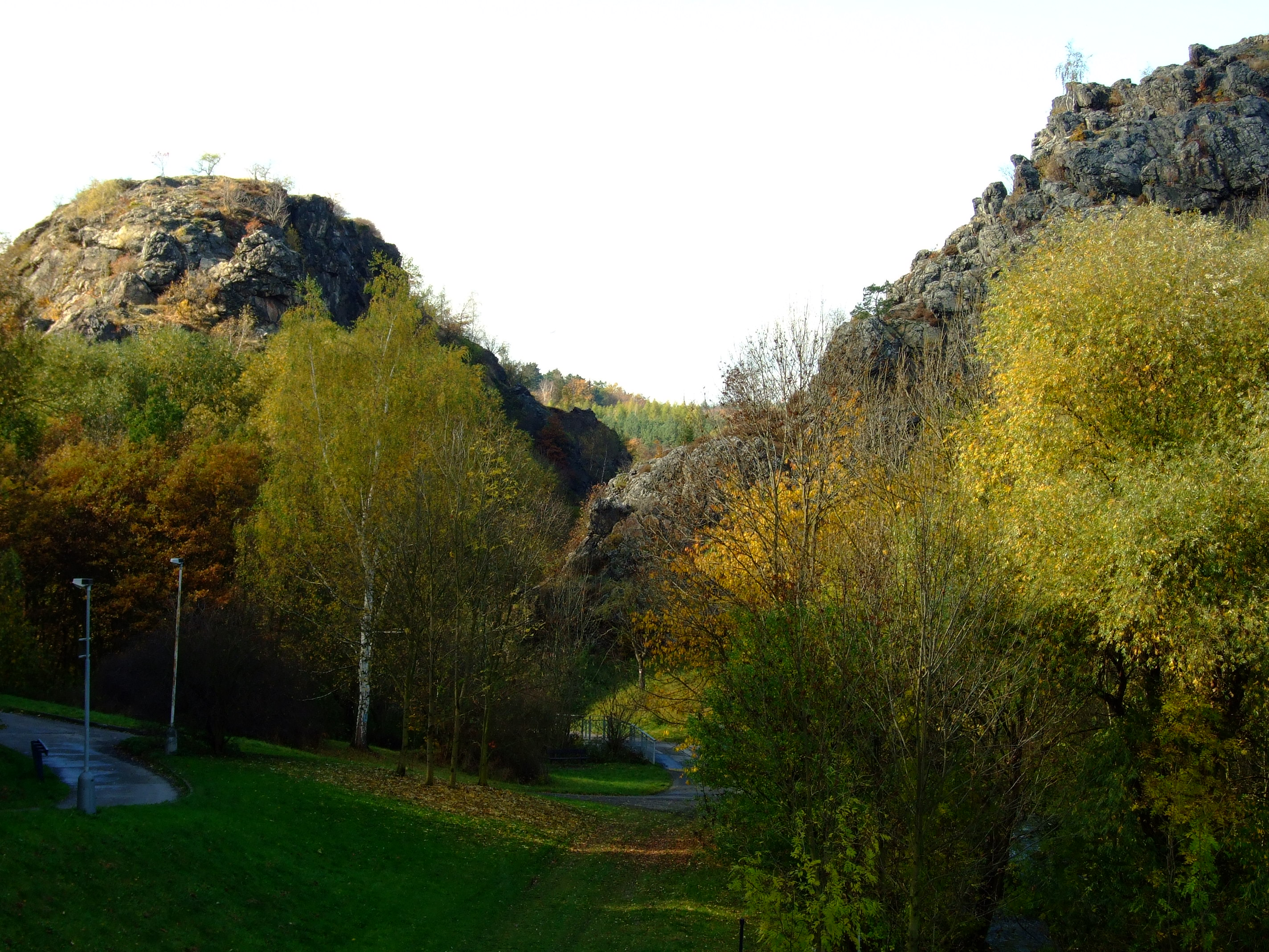 Natural reserve Divoká Šárka in Prague in October 2008help